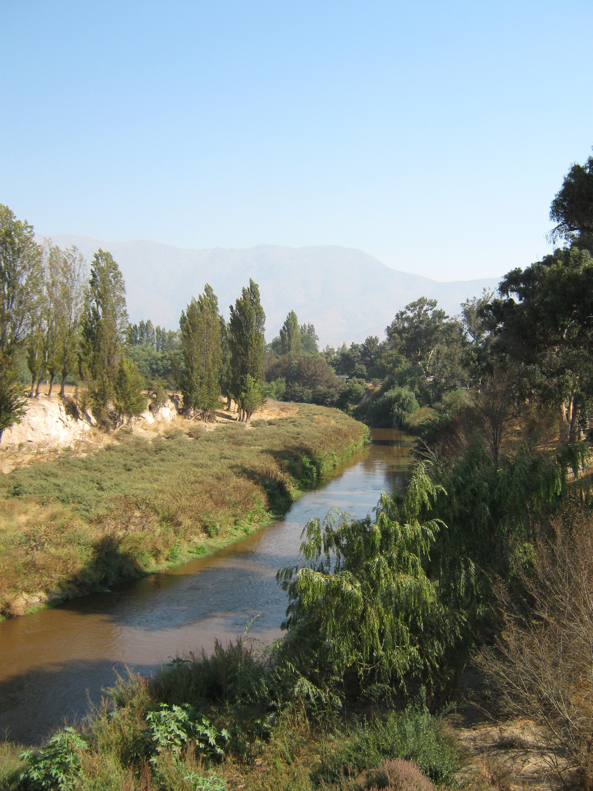 El Noviciado Pudahuel Chile